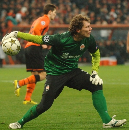 Andriy Pyatov Champions league SHAKTHAR DONESTK - JUVENTUS 0-1